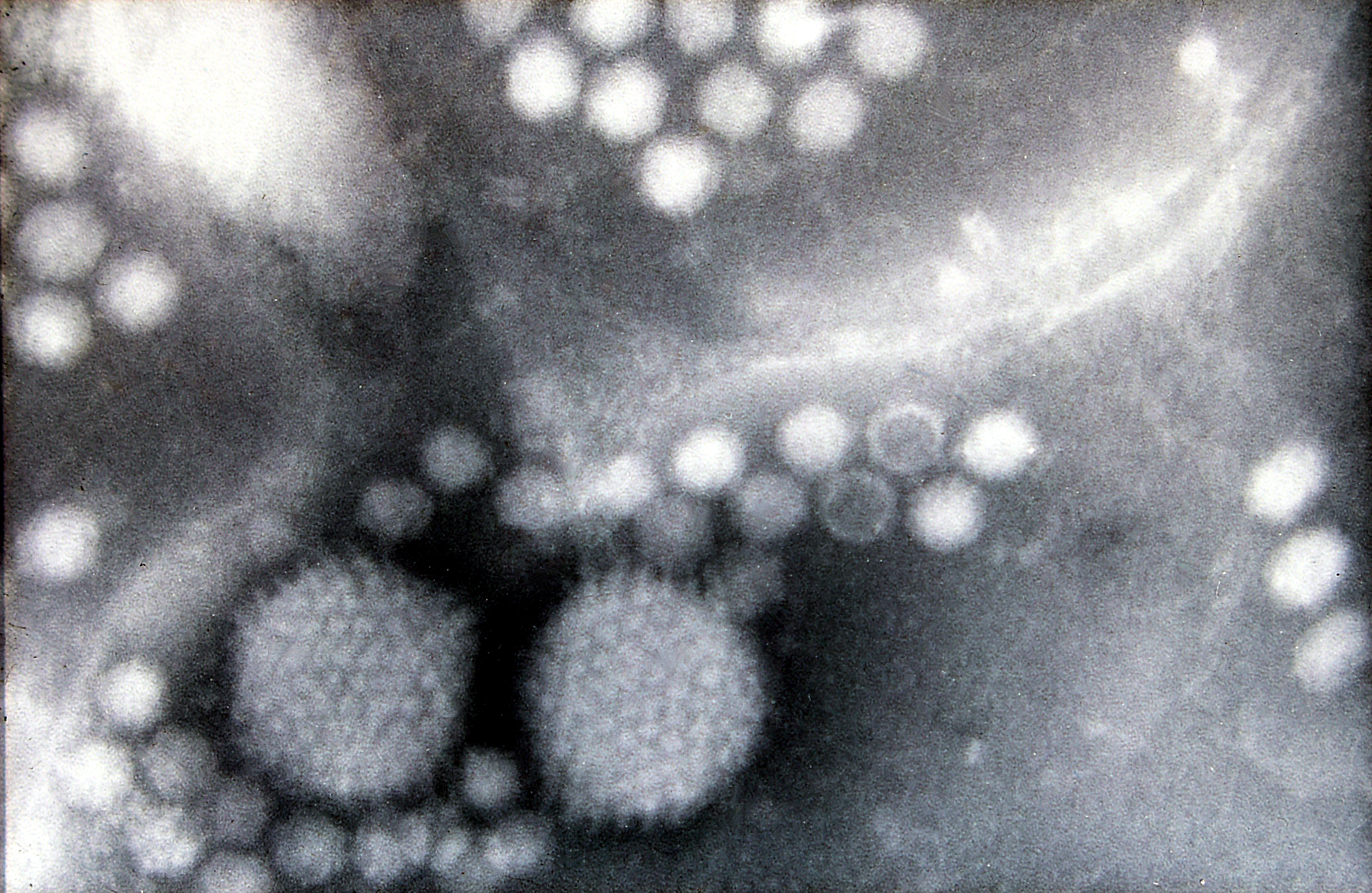 Electron micrograph of two adenovirus particles surrounded by numerous, smaller adeno-associated viruses